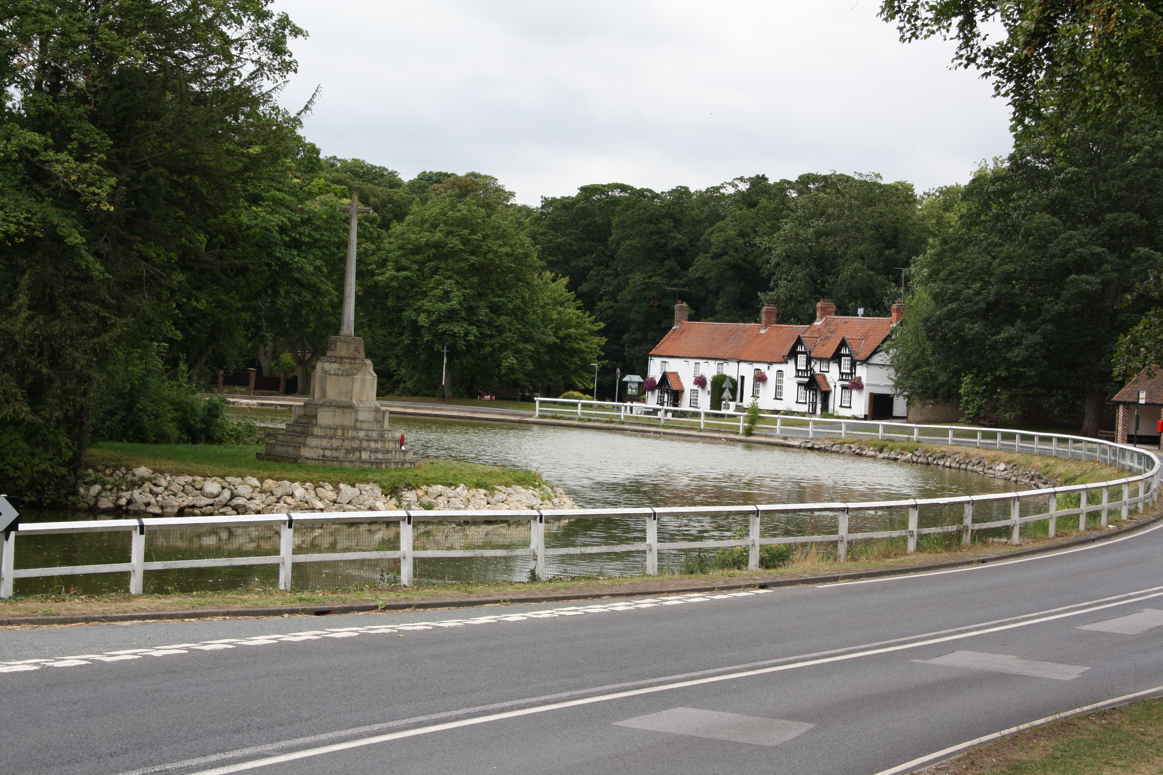 Bishop Burton Pond, Bishop Burton, East Riding of Yorkshire, England.